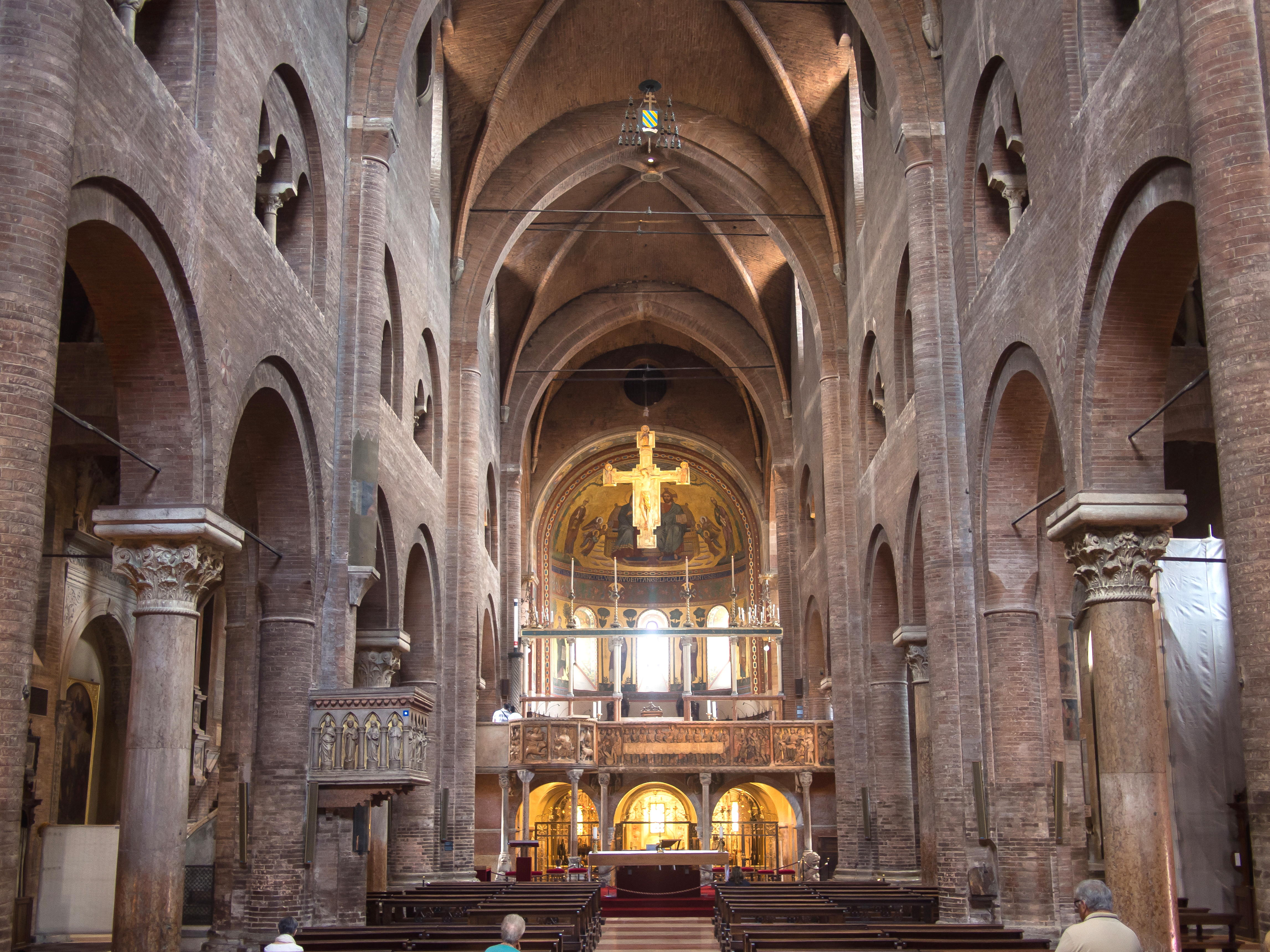 Modena Cathedral inside